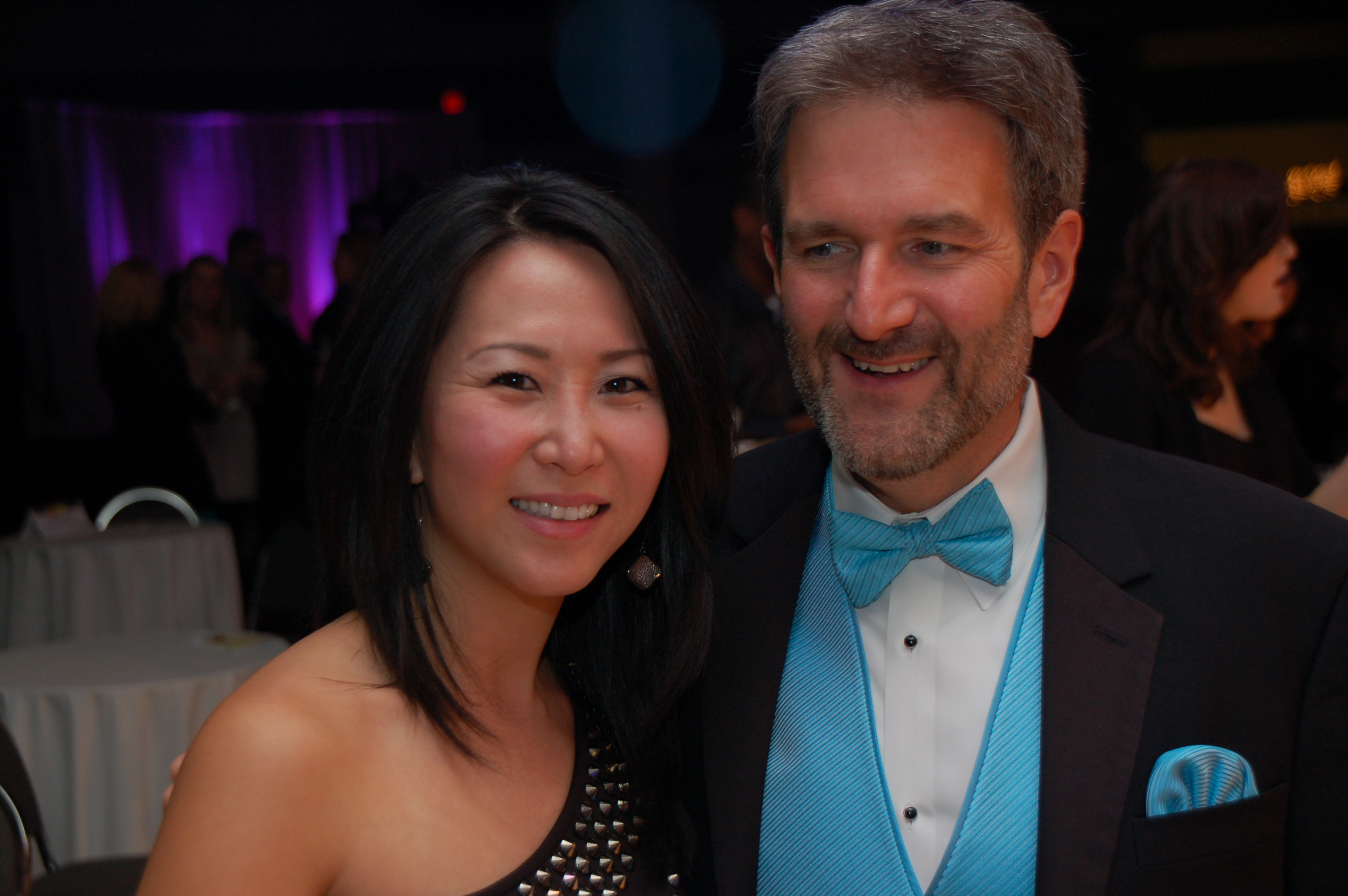 At the 2012 Dancing With the Knoxville Stars. Hana and Frank were FBI Citizen Academy classmates